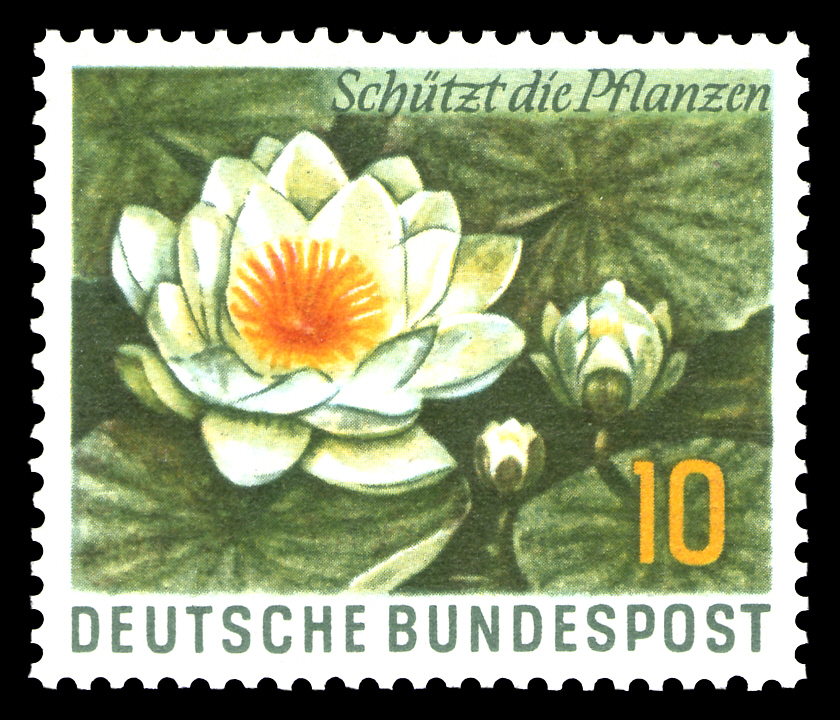 Stamps series "environmentalism", save the plants